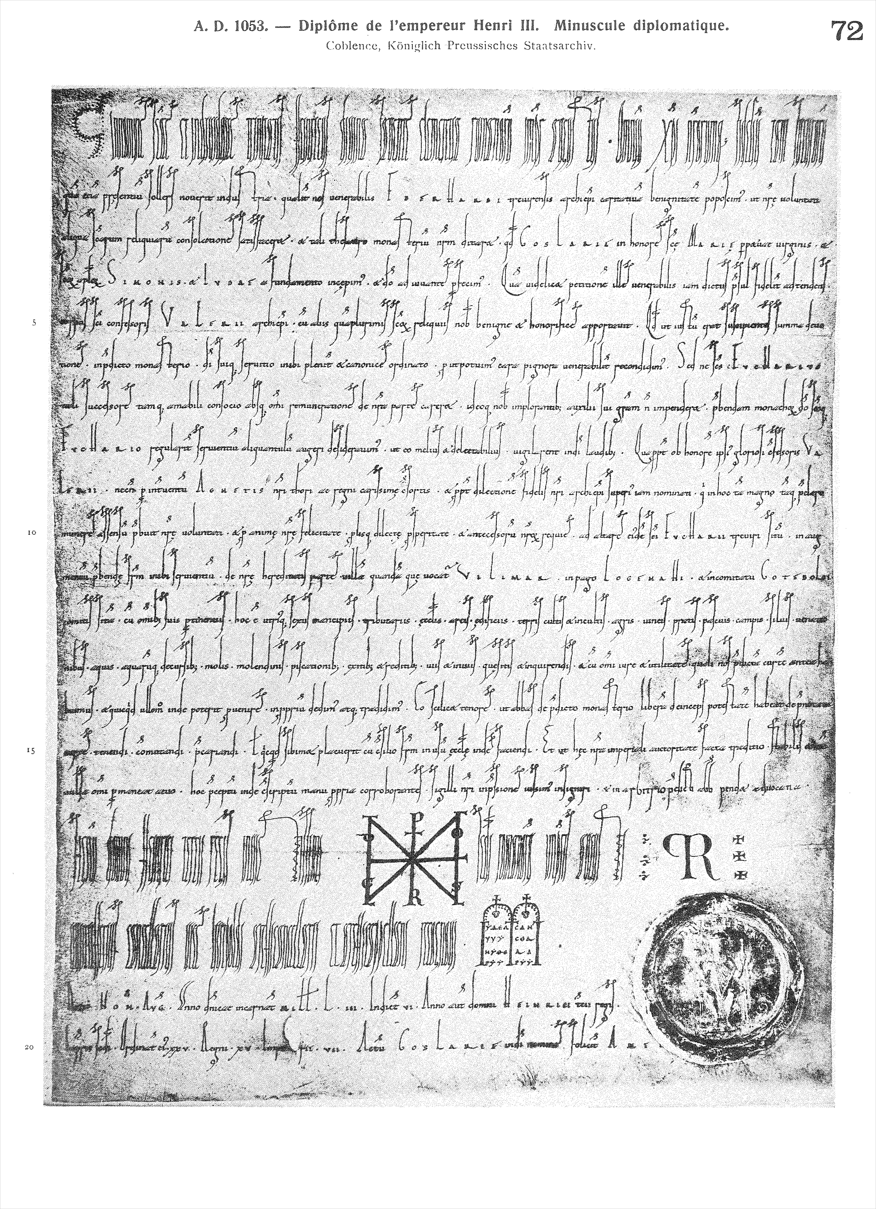 Diploma of the emperor Henry III of the Salic dinasty, dated 1053. Carolina diplomatic minuscule.